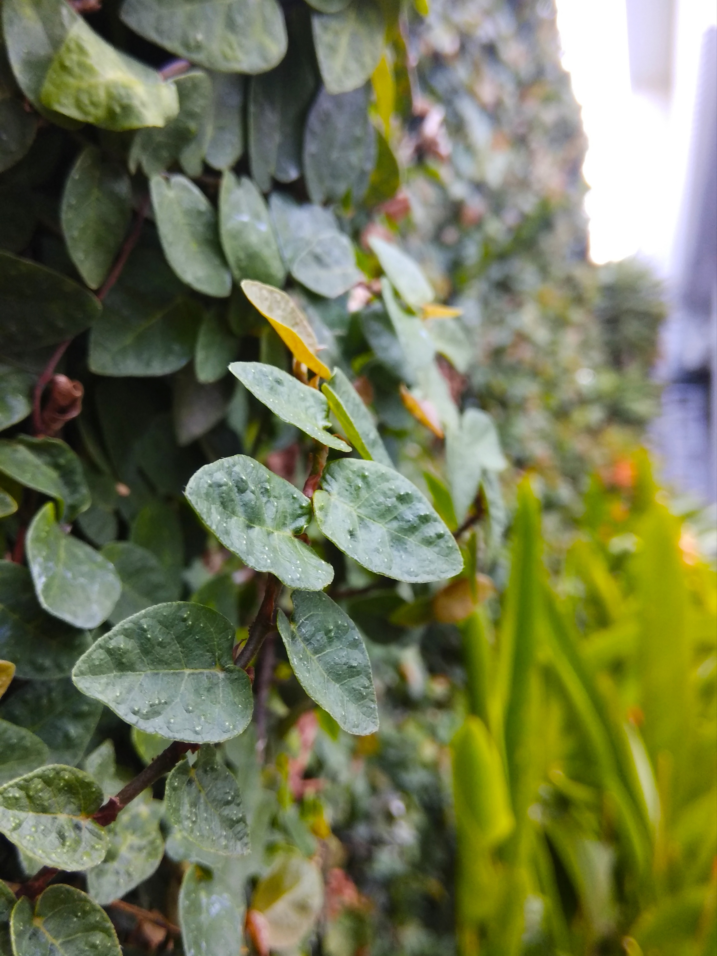 Ficus pumila